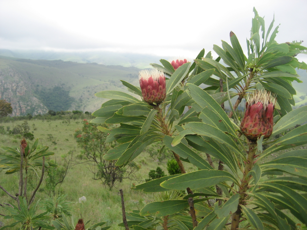 Protea caffra in the Malalotja nature reserve in Swaziland.